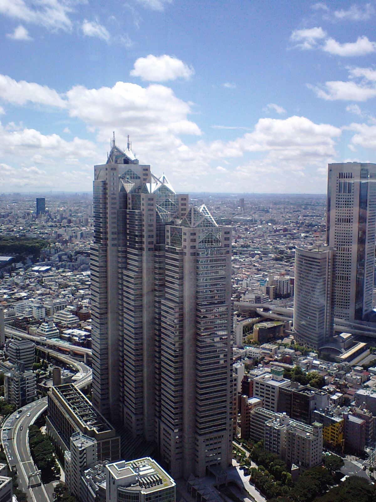 ParkHyattTokyo